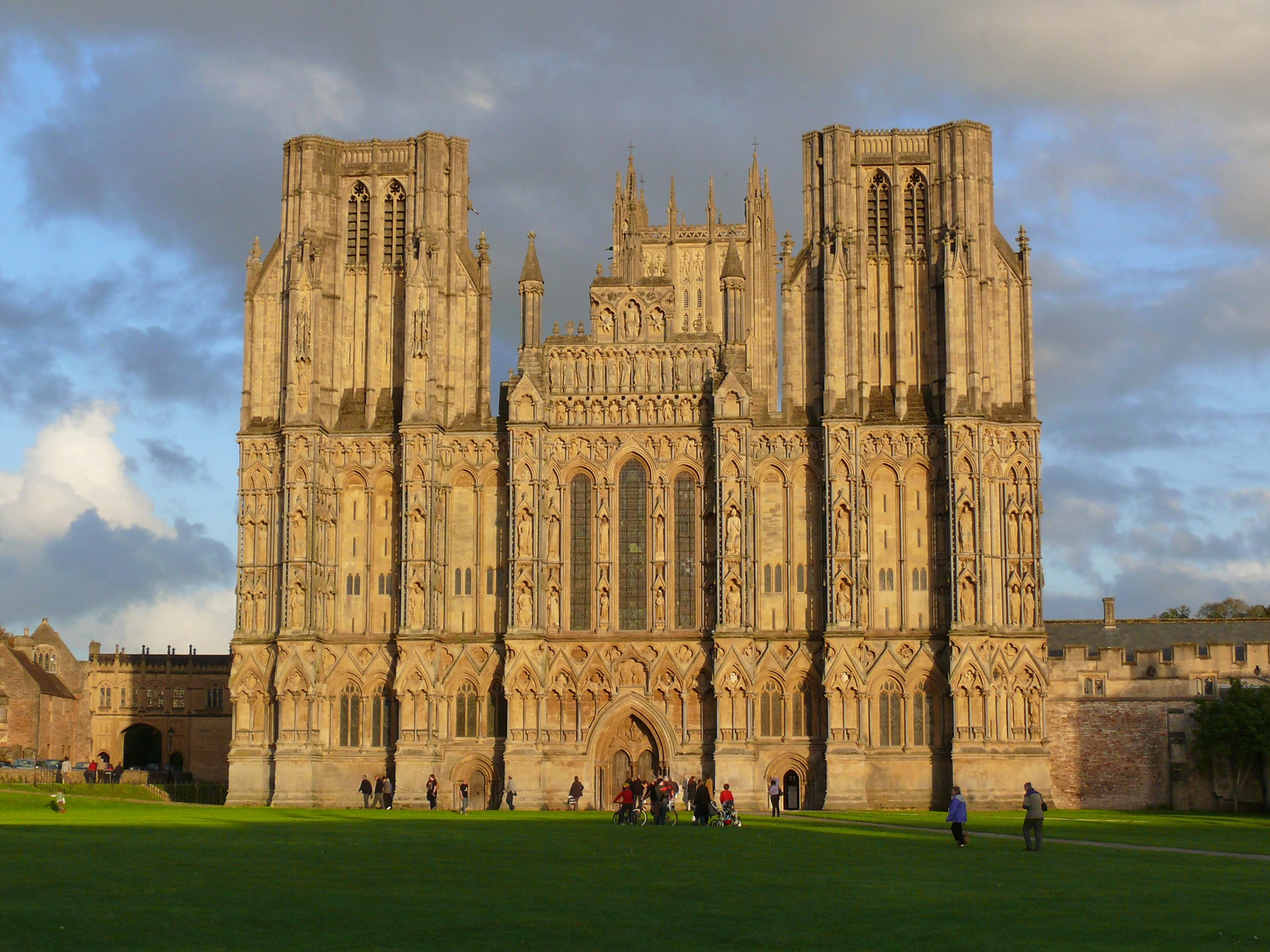 Wells Cathedral